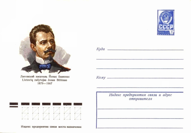 1979 Soviet postal cover with portrait of Jonas Biliūnas.